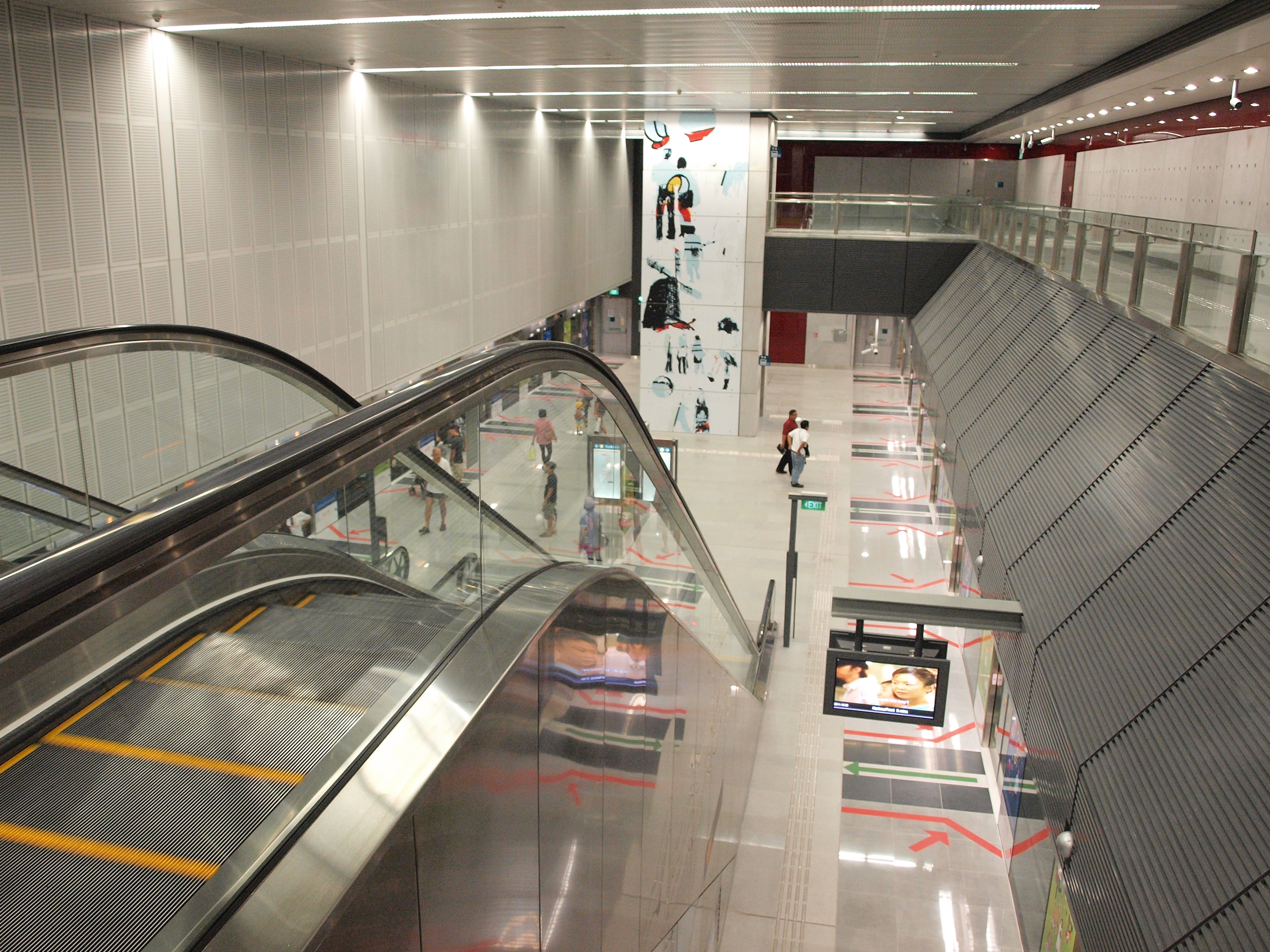 An escalator leading down to the platform level of Holland Village MRT Station, Singapore.